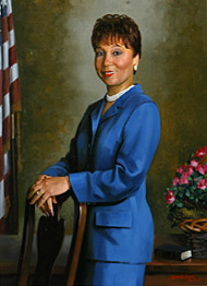 Alexis M. Herman